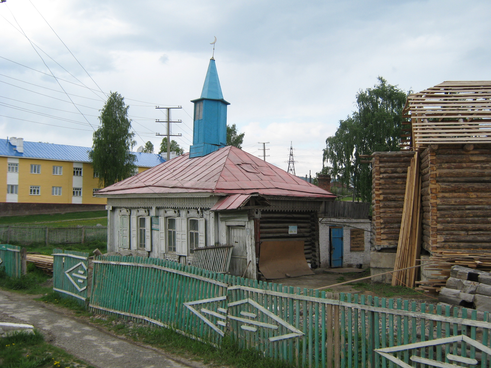 Beloretsk Mosque